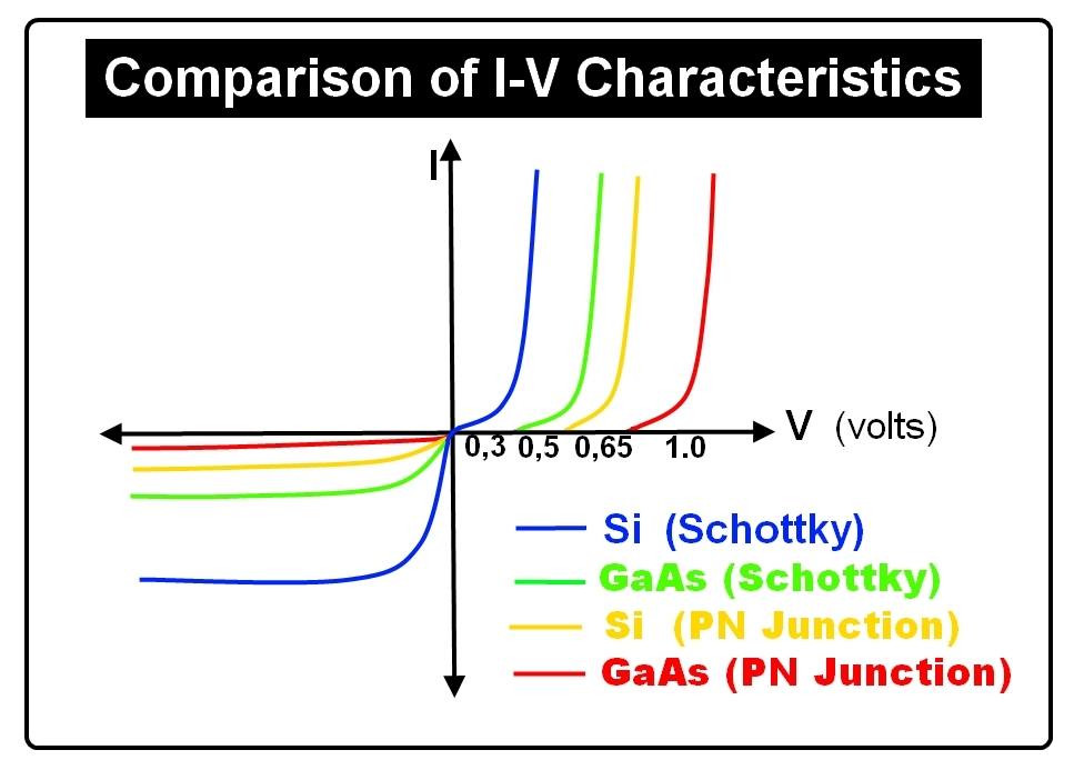 Diode-IV-Curve